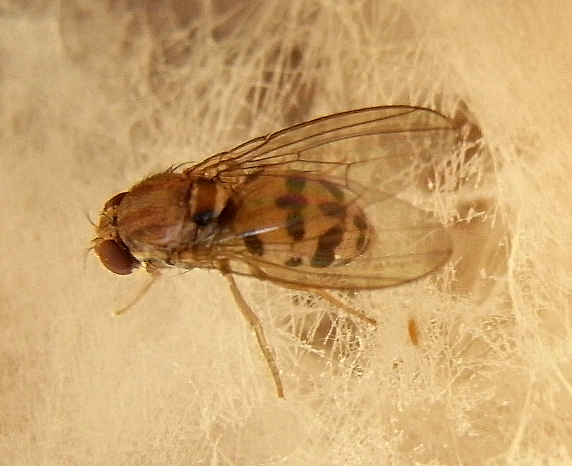 Leucophenga maculata Ricoh R8